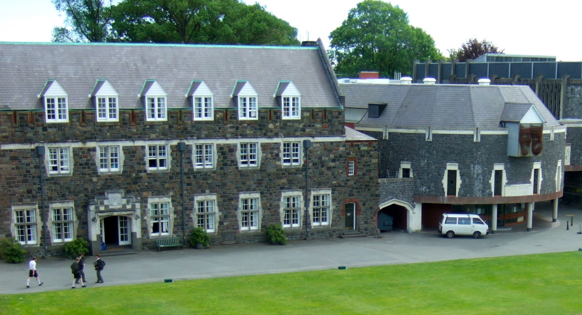 Jacob's House and Old Boys' Theatre, Christ's College, Christchurch, New Zealand. New Zealand Historic Places Trust Register number: 3279.